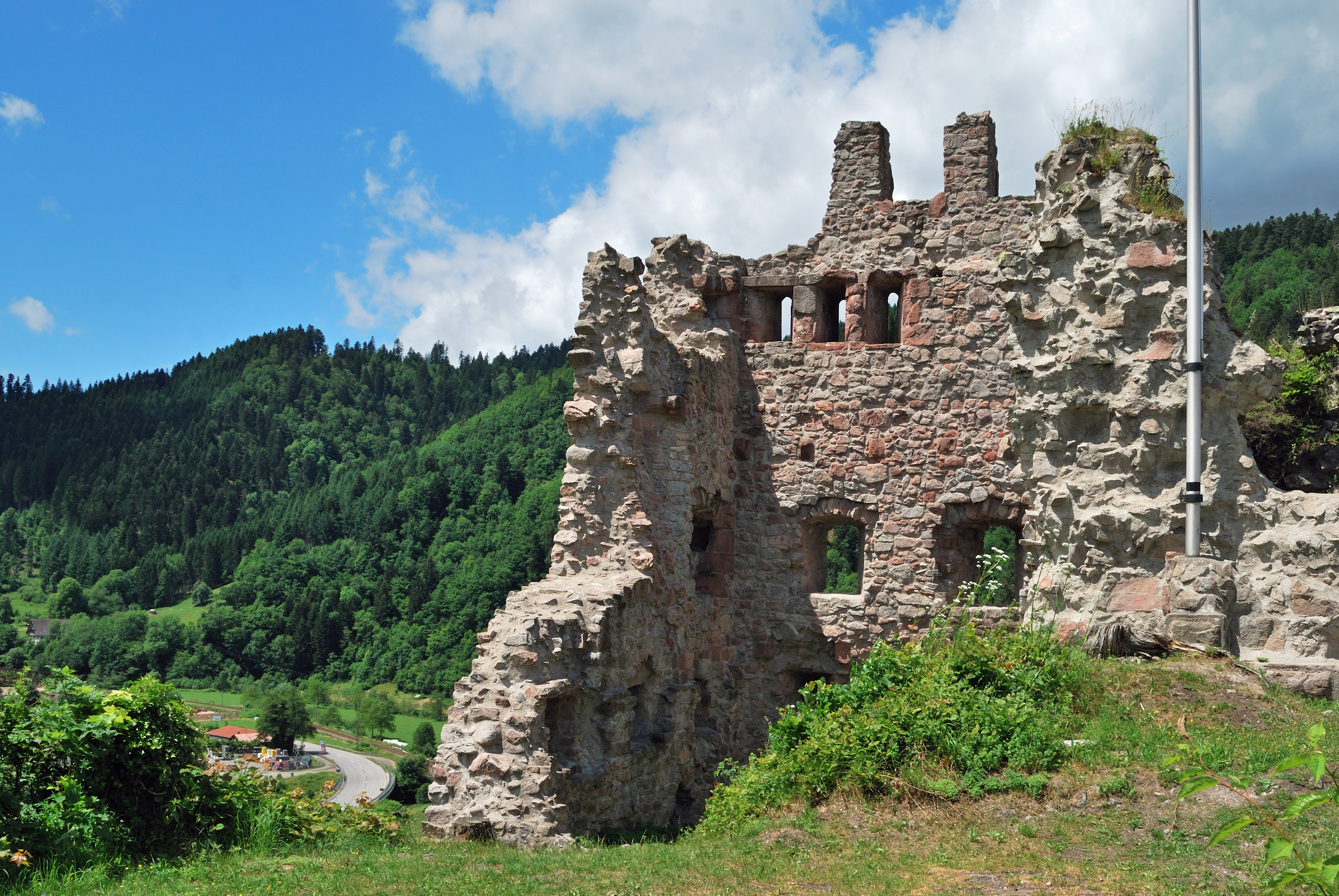 Castle ruine Schenkenburg in Schenkenzell in the federal state Baden-Württemberg in Southern Germany.